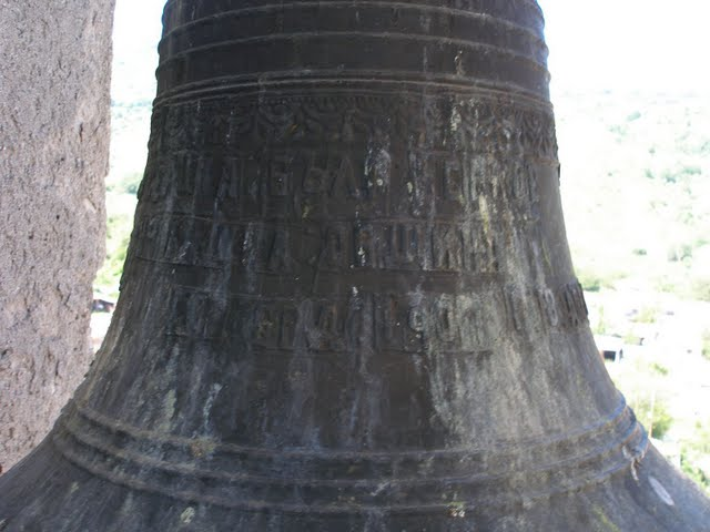 The bell in bell-tower in Ano Vrondou/Gorno Brodi, Aegean Macedonia, Greece